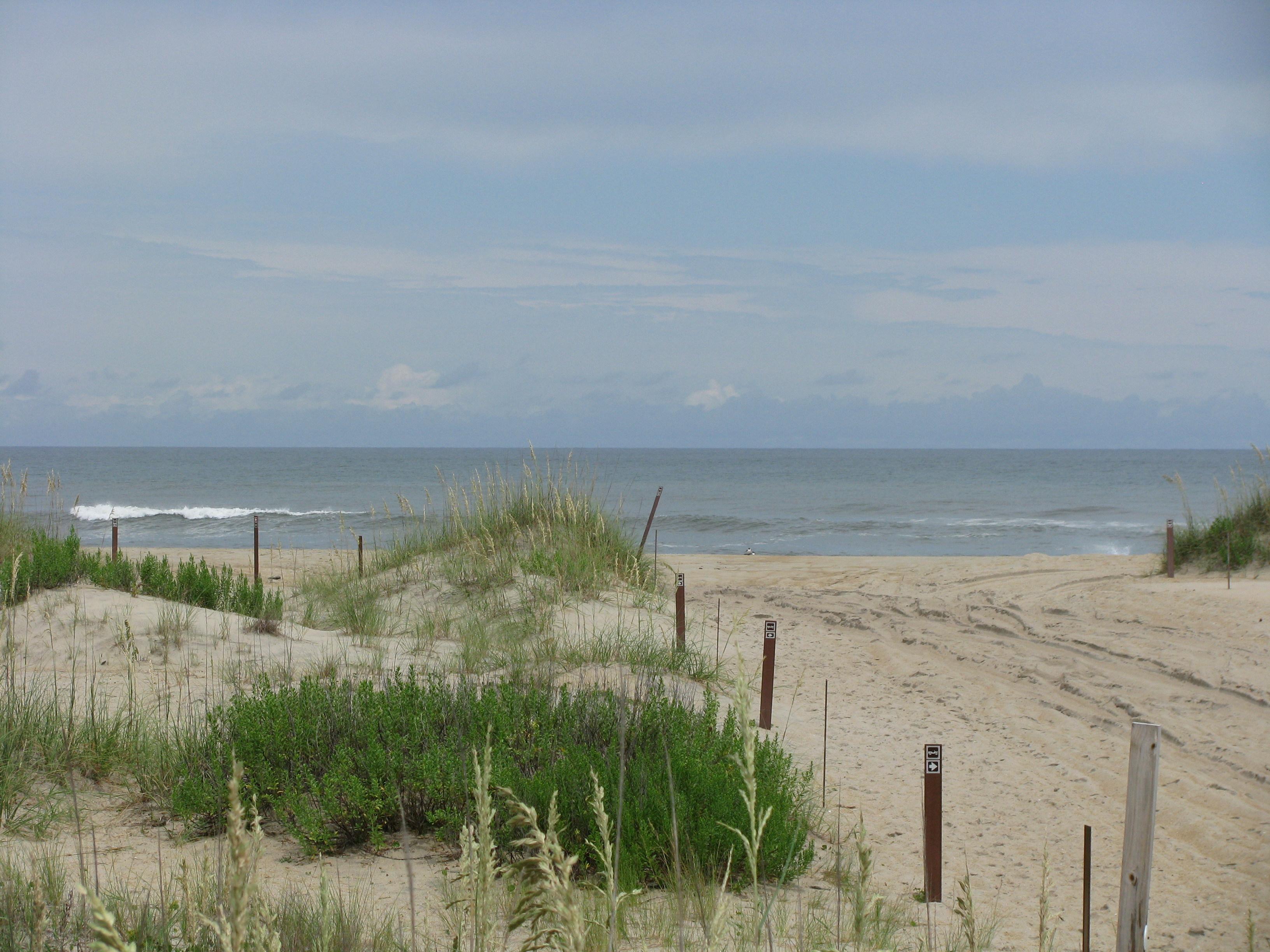 The path to the beach at ramp 30 on the Cape Hatteras National Seashore